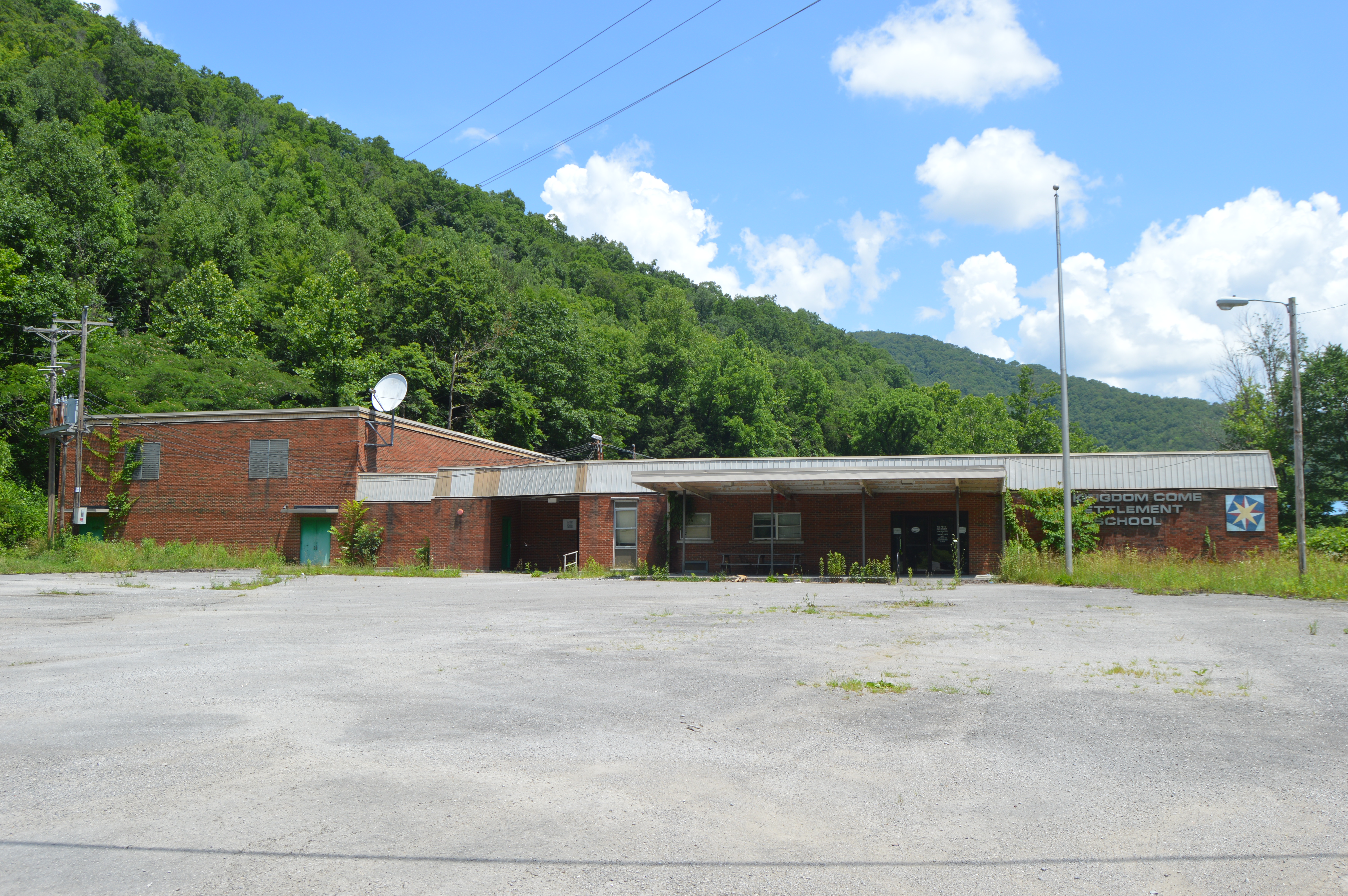 Front of the former Kingdom Come Settlement School, located on Kentucky Route 160 at Linefork in Letcher County, Kentucky, United States.